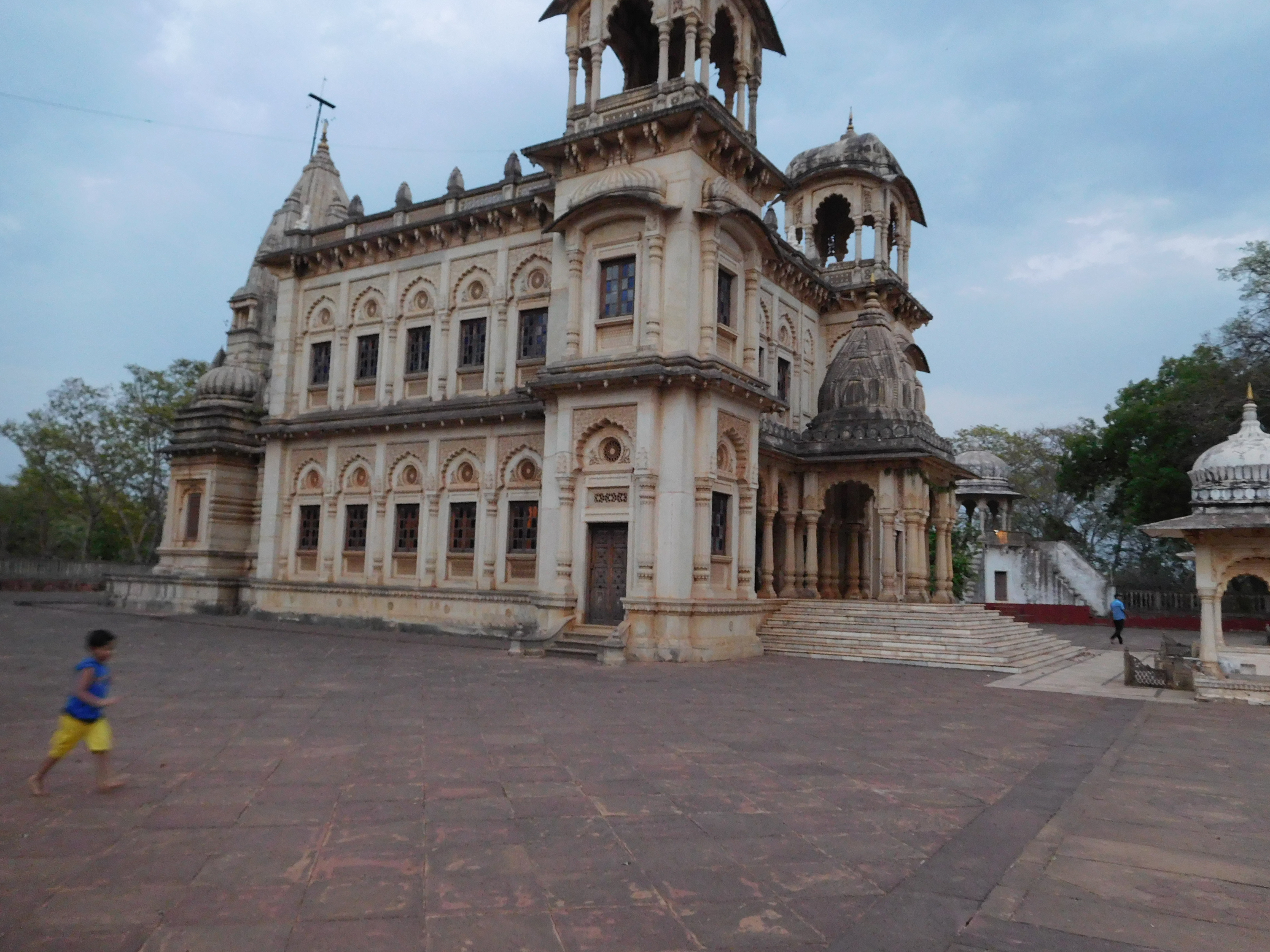 Chhatari (Shivpuri,Madhya Pradesh,India) a memorials of Jija Bai of Sindhiya Family of Gwalior